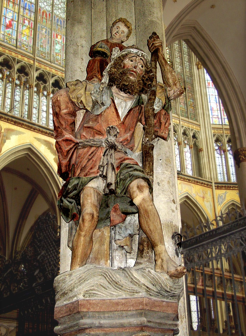 Statue of Saint Christopher at Cologne Cathedral, created ca. 1470 by Tilman van der Burch